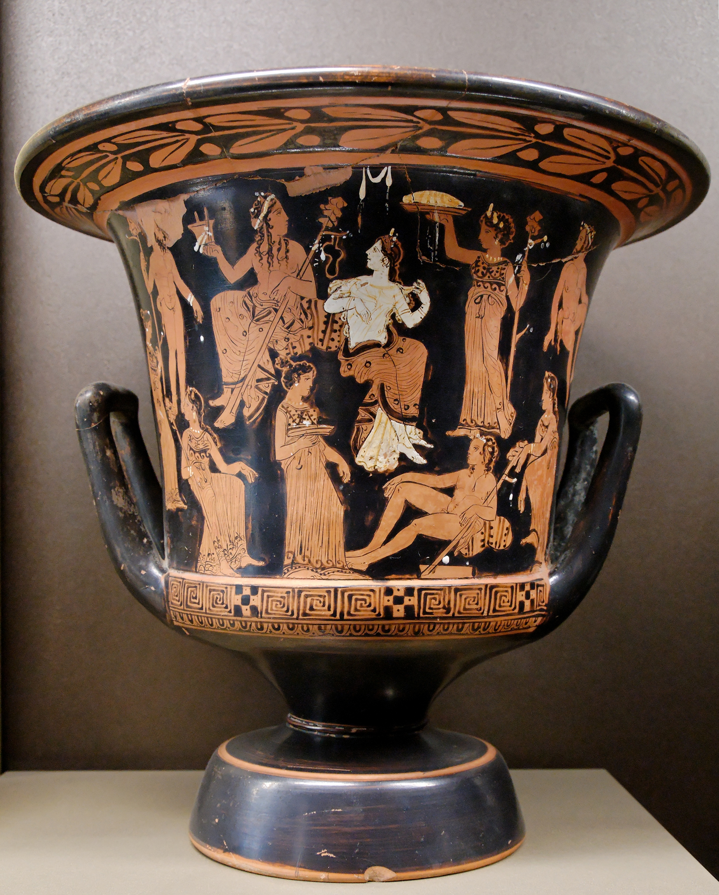 Dionysos, Ariadne, satyrs and maenads. Side A of an Attic red-figure calyx-krater, ca. 400-375 BC. From Thebes.